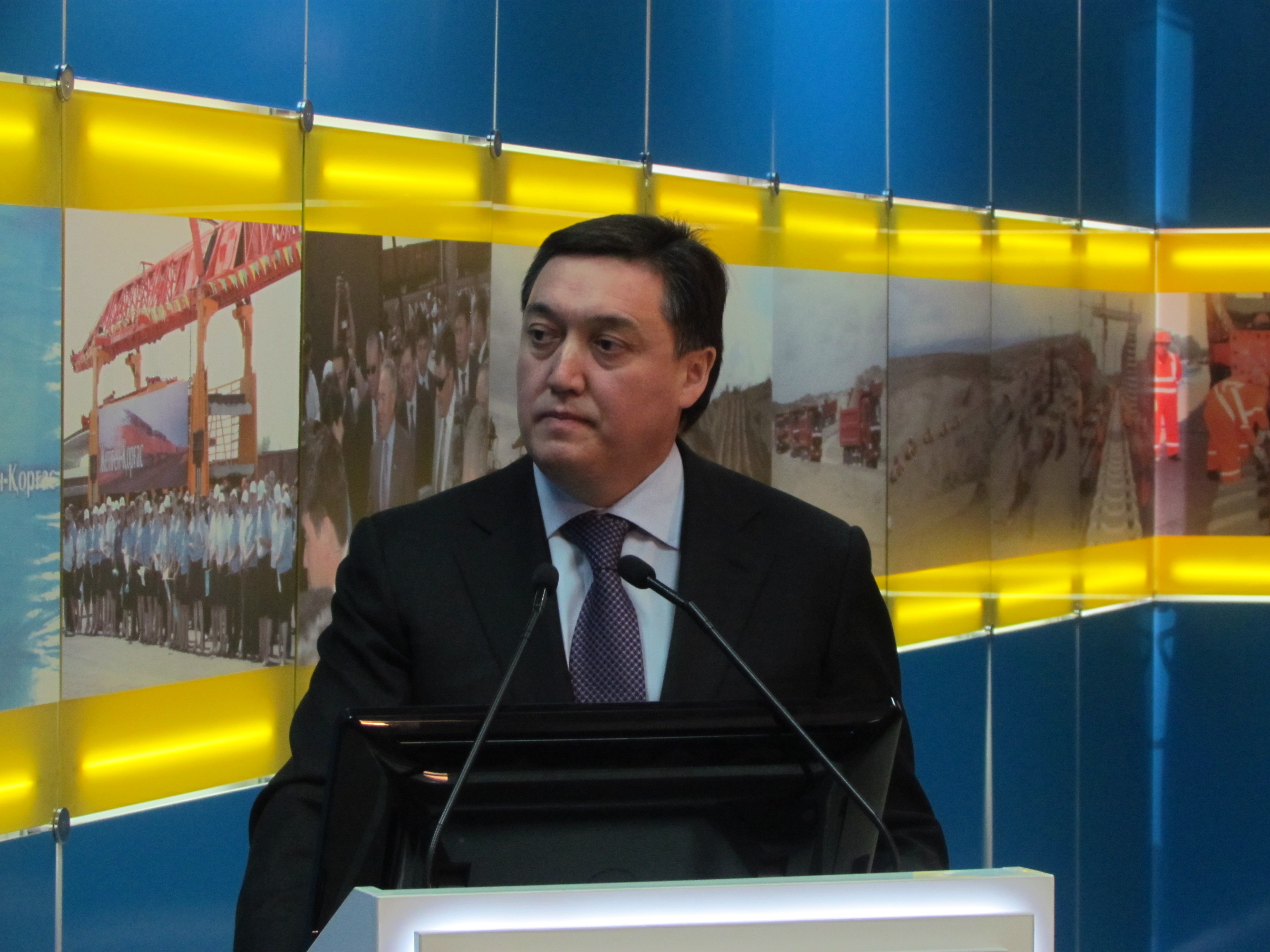 Askar Mamin